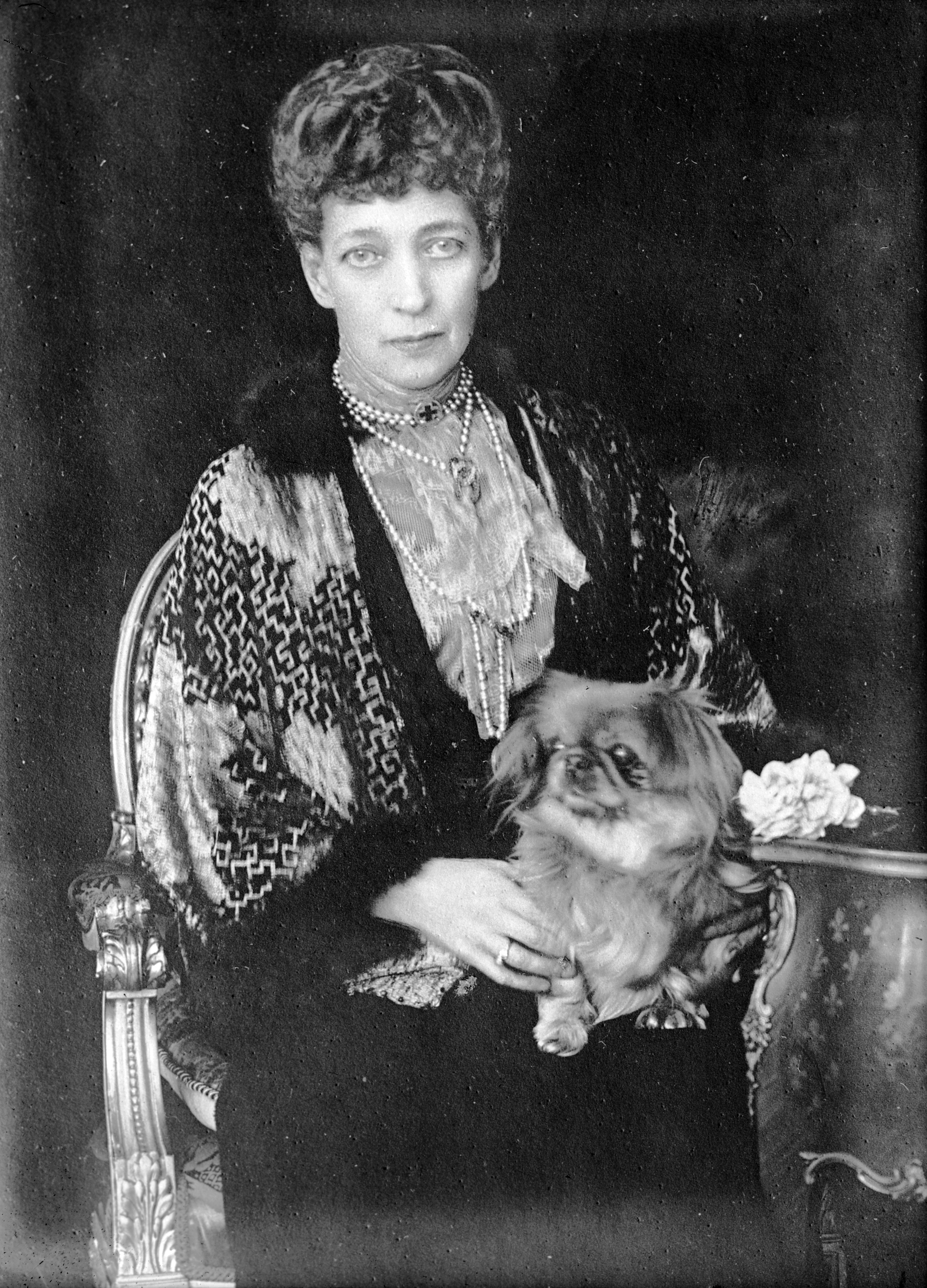 Alexandra of Denmark, Queen Consort to Edward VII of the United Kingdom